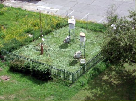 Meteostation in areal of Jan Evangelista Purkyněs's University's Faculty of Science.